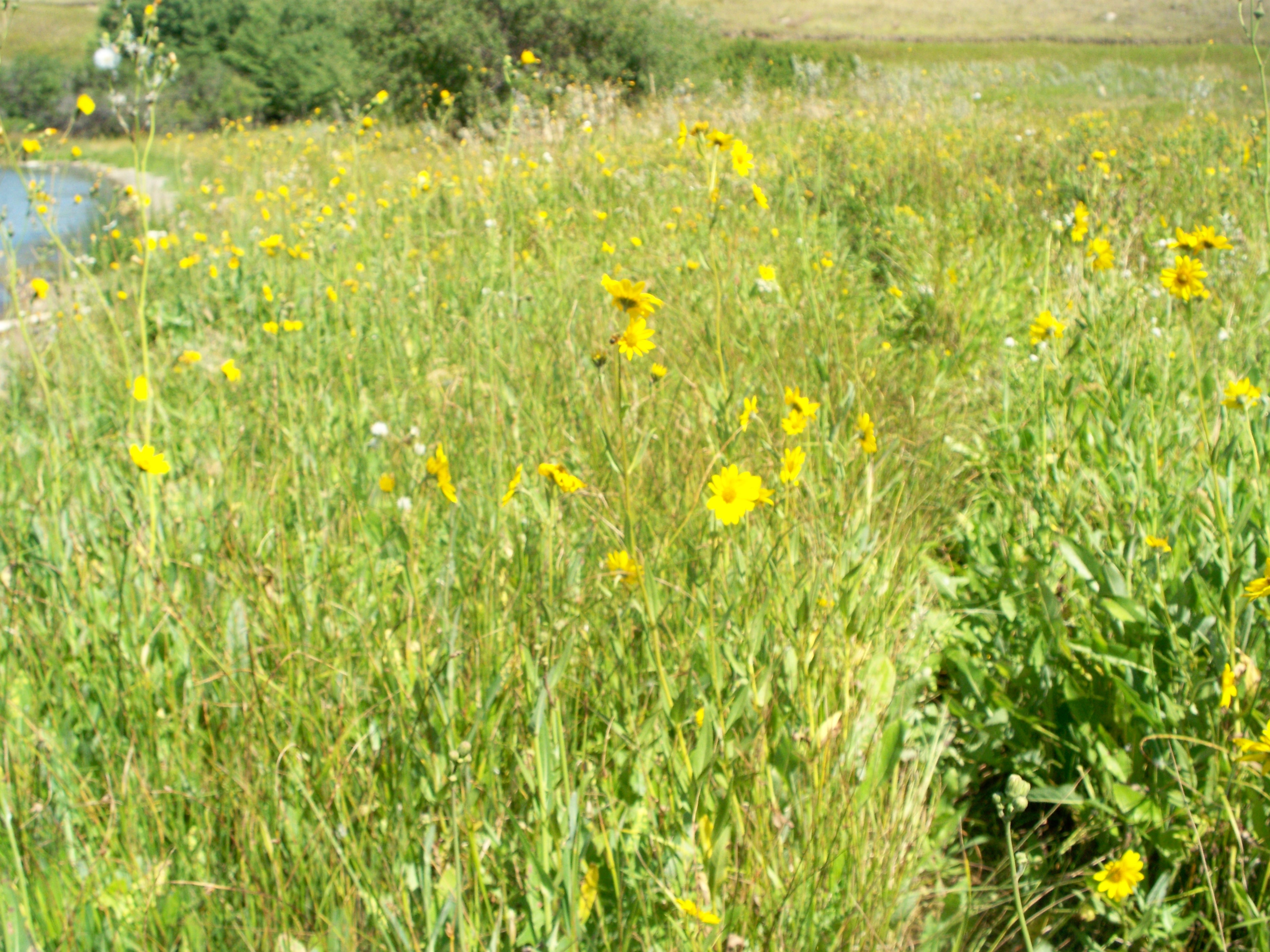 Plant life at Castlewood Lake.